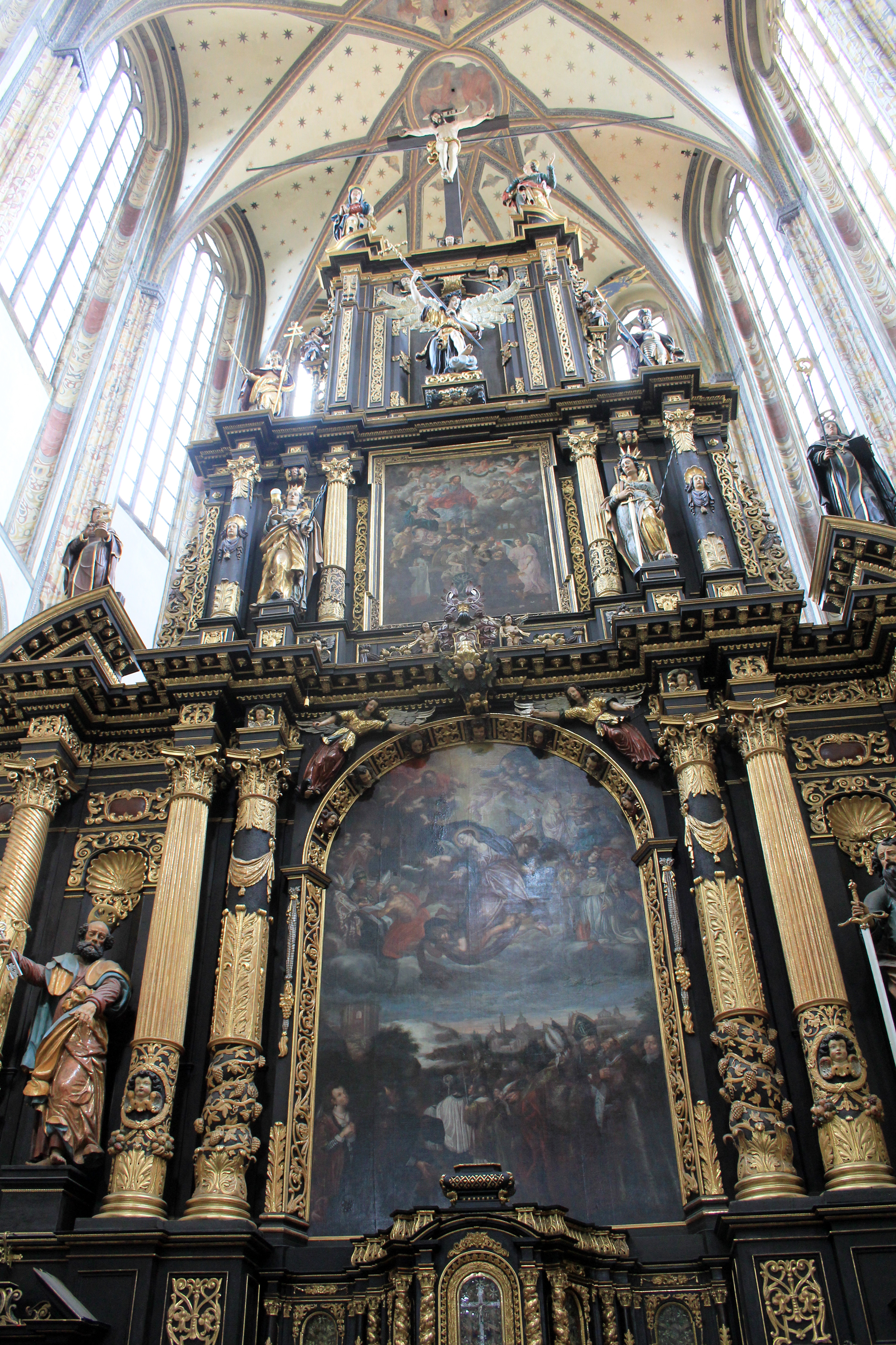 Interior of Church of Our Lady of the Snow, Prague, Czech Republic